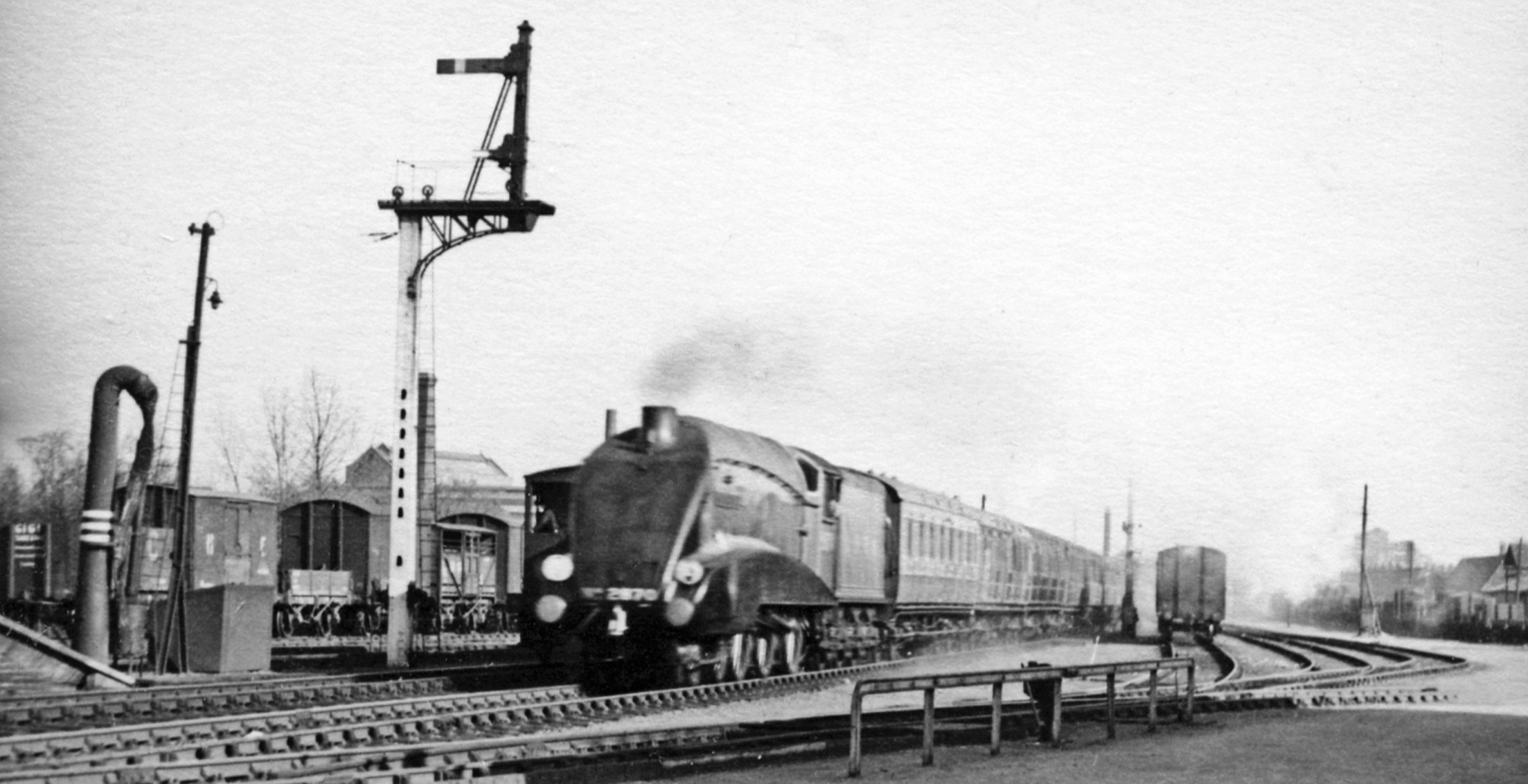 B17/5 No. 2870 entering Stowmarket, 1940 - Wartime.View southwards, towards Ipswich and London, of the 15.40 Liverpool Street - Norwich, headed by No. 2870 'City of London', one of just two Gresley 'Sandringham' 4-6-0s ('Footballer' series) which he selected in September 1937 for streamlining like his A4 Pacific's. The two B17s were No. 2859 'Norwich City' (built 6/36) and became 'East Anglian' and No. 2870 'Manchester City' (built 5/37) became 'City of London' as B17/5s, in 1946 Nos. 1659 and 1670, then BR 61659 and 61670. Their streamlining was removed in 4/51 and they were converted to B17/6 in 7/49 and 4/51 respectively, being withdrawn 2/59 and 4/60. The photograph was taken in May 1940 by my late cousin Walter Dendy, braving the strict forbiddance of railway photography in wartime.